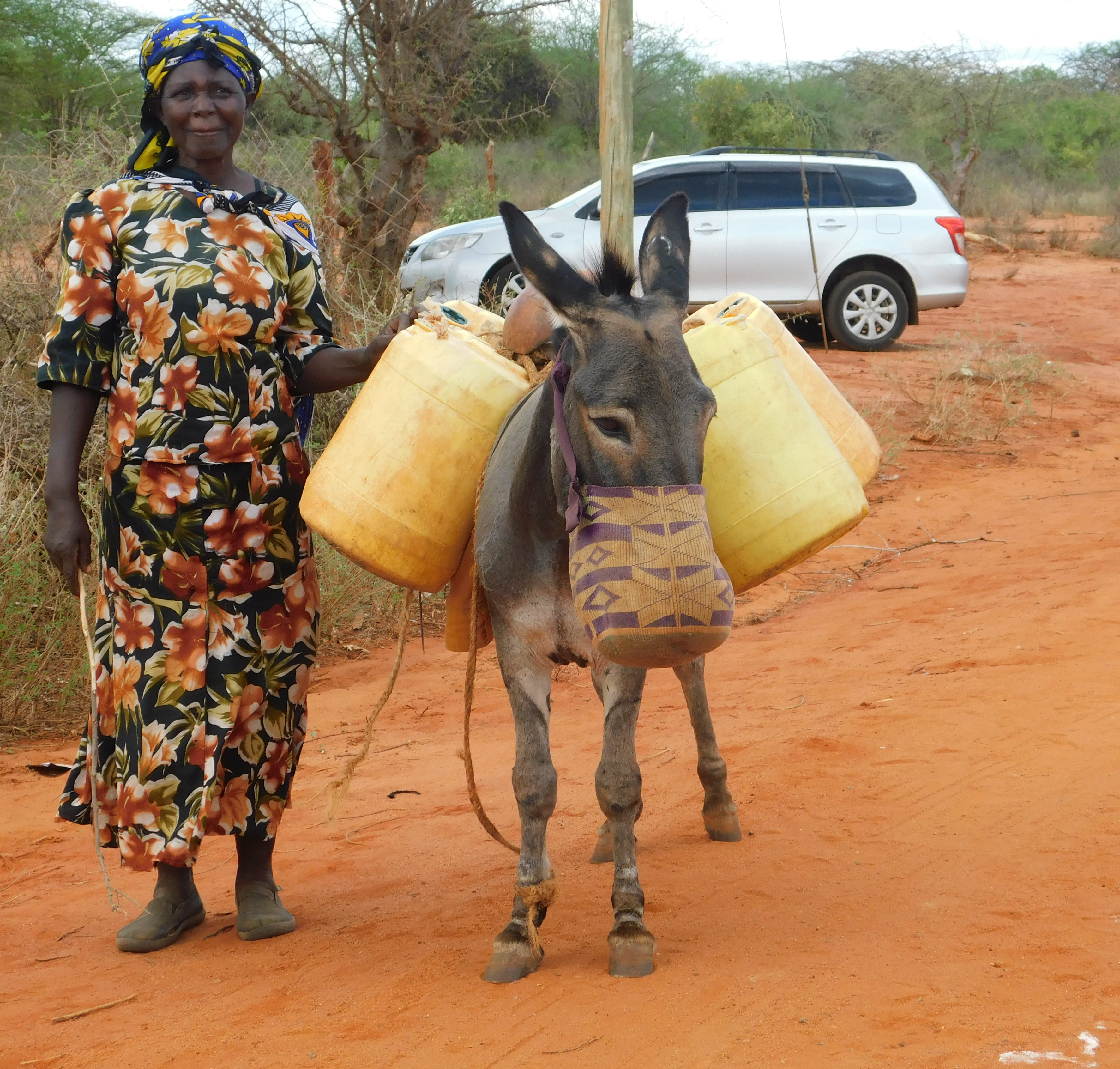 During my bride price ceremony I traveled to a remote part of Ukambani and chanced upon this beauty going to look for water. She travels for several kilometers to wells dug in dry riverbeds for a commodity that some of us take for granted. But we do it because we have to survive. Africa is moving and I know we shall be able to turn the narrative around This is an image with the theme "Africa on the Move or Transport" from: Kenya